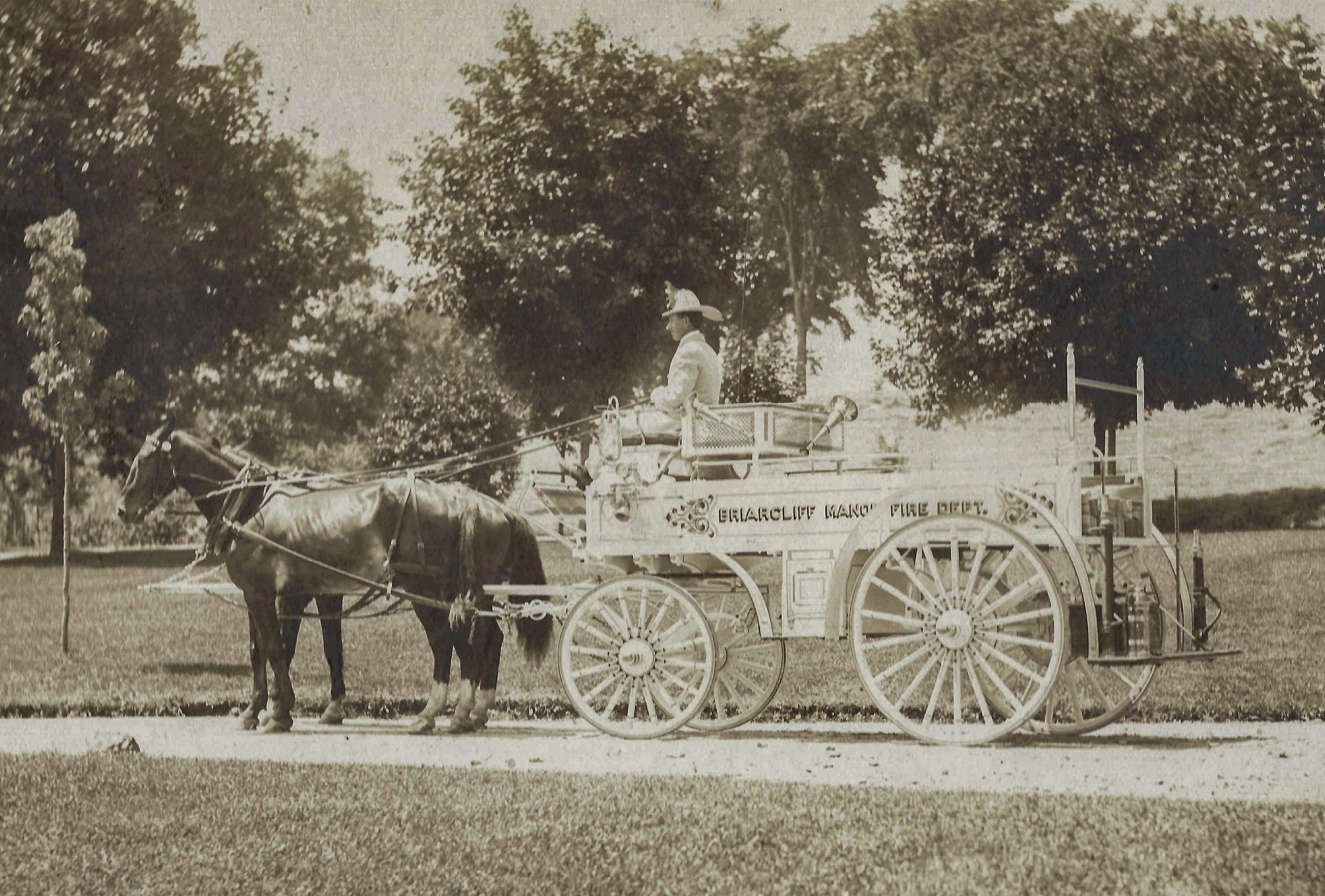 The BMFD's first horse-drawn vehicle, purchased 1902, seen in 1905.